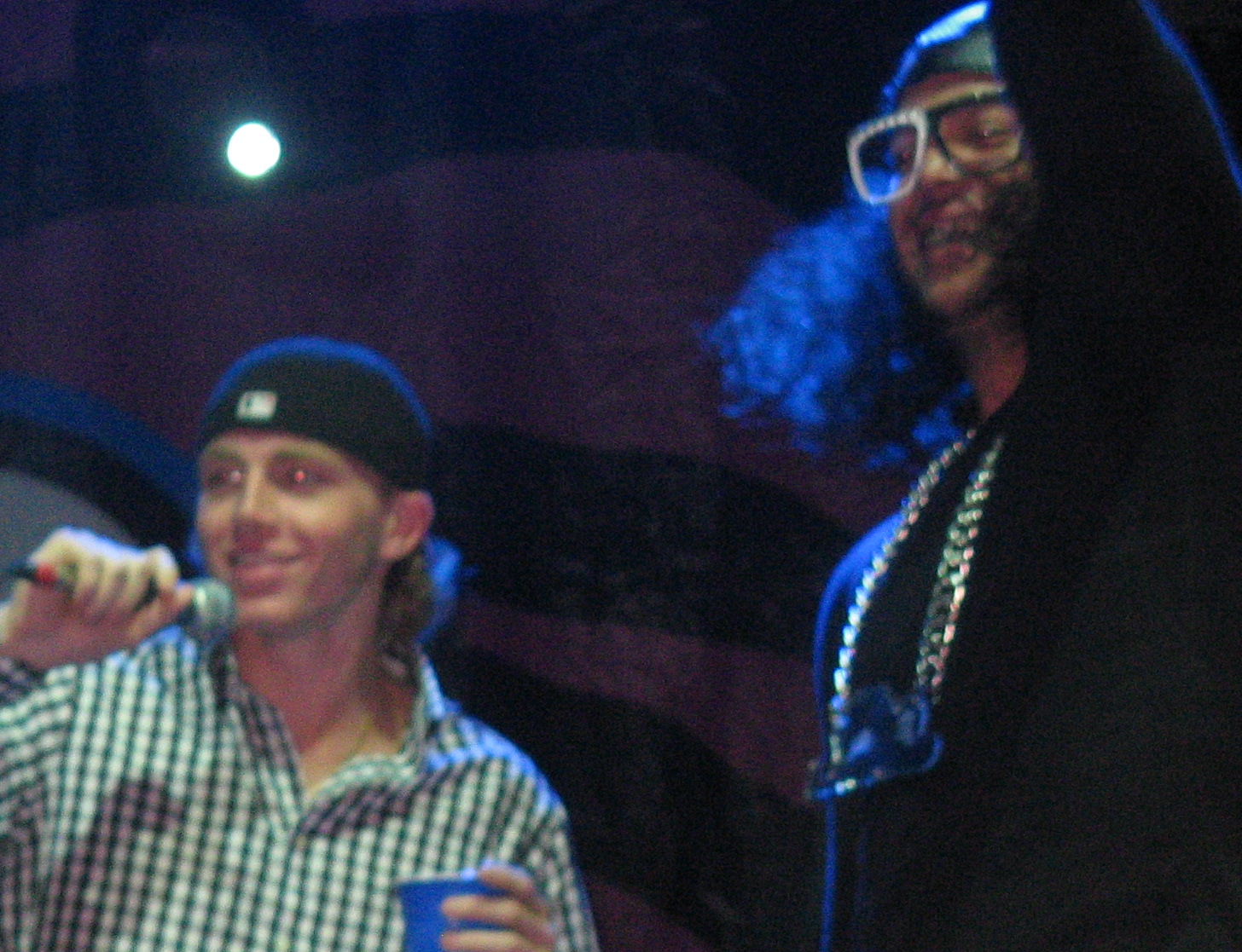 Bamboozle Roadshow Soldier Field, Chicago Saturday June 12, 2010 © Jing Qu | Follow me on twitter and read my blog for more.